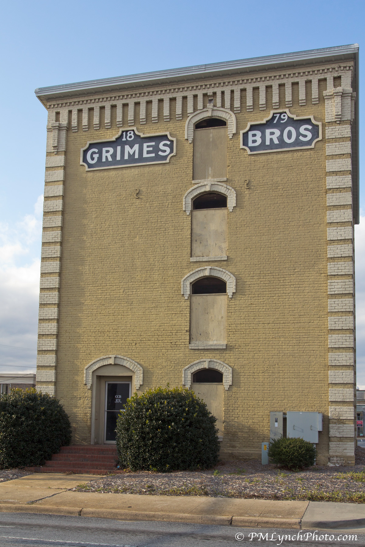 Grimes Brothers Mill